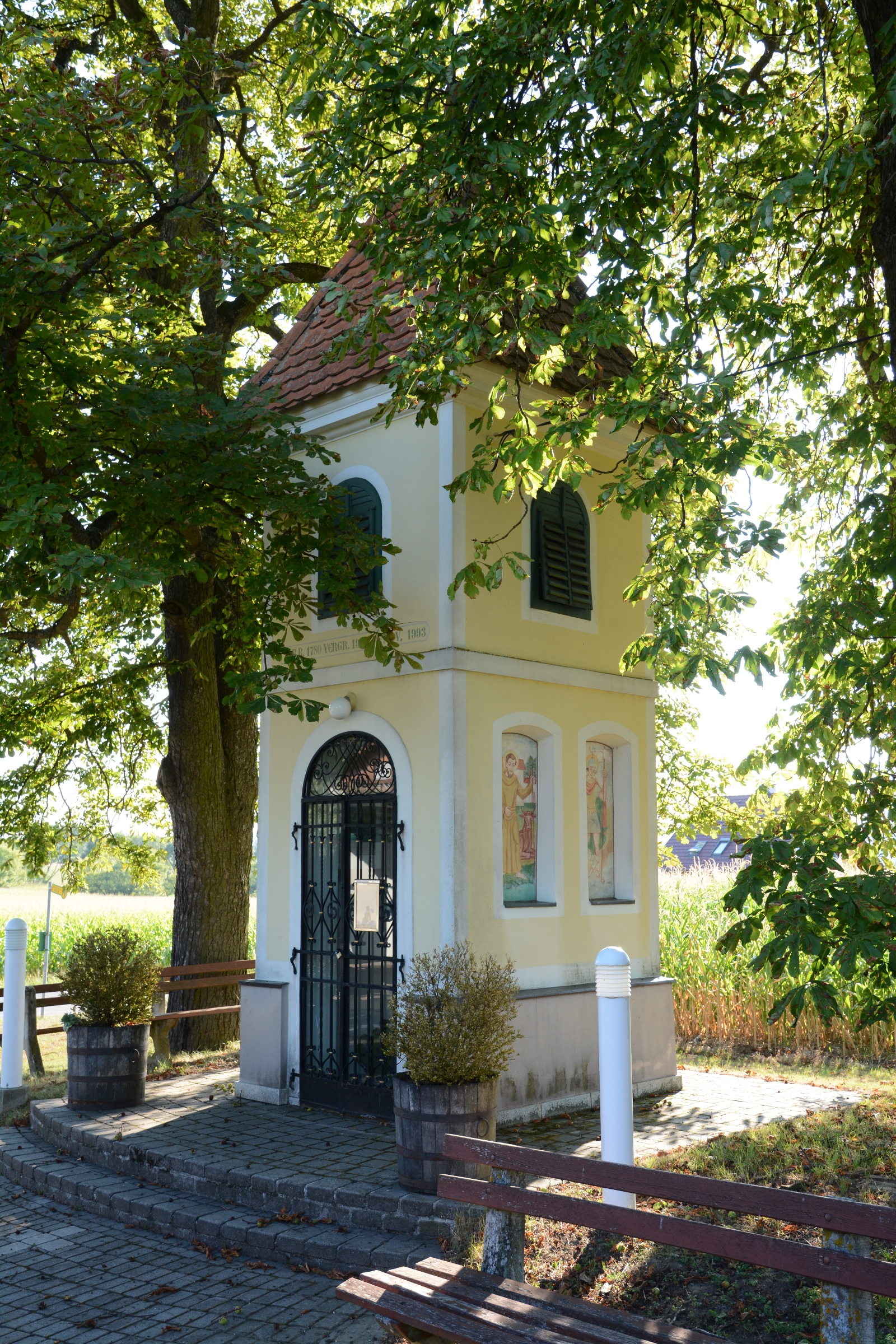 Chapel Steinbach Merkendorf